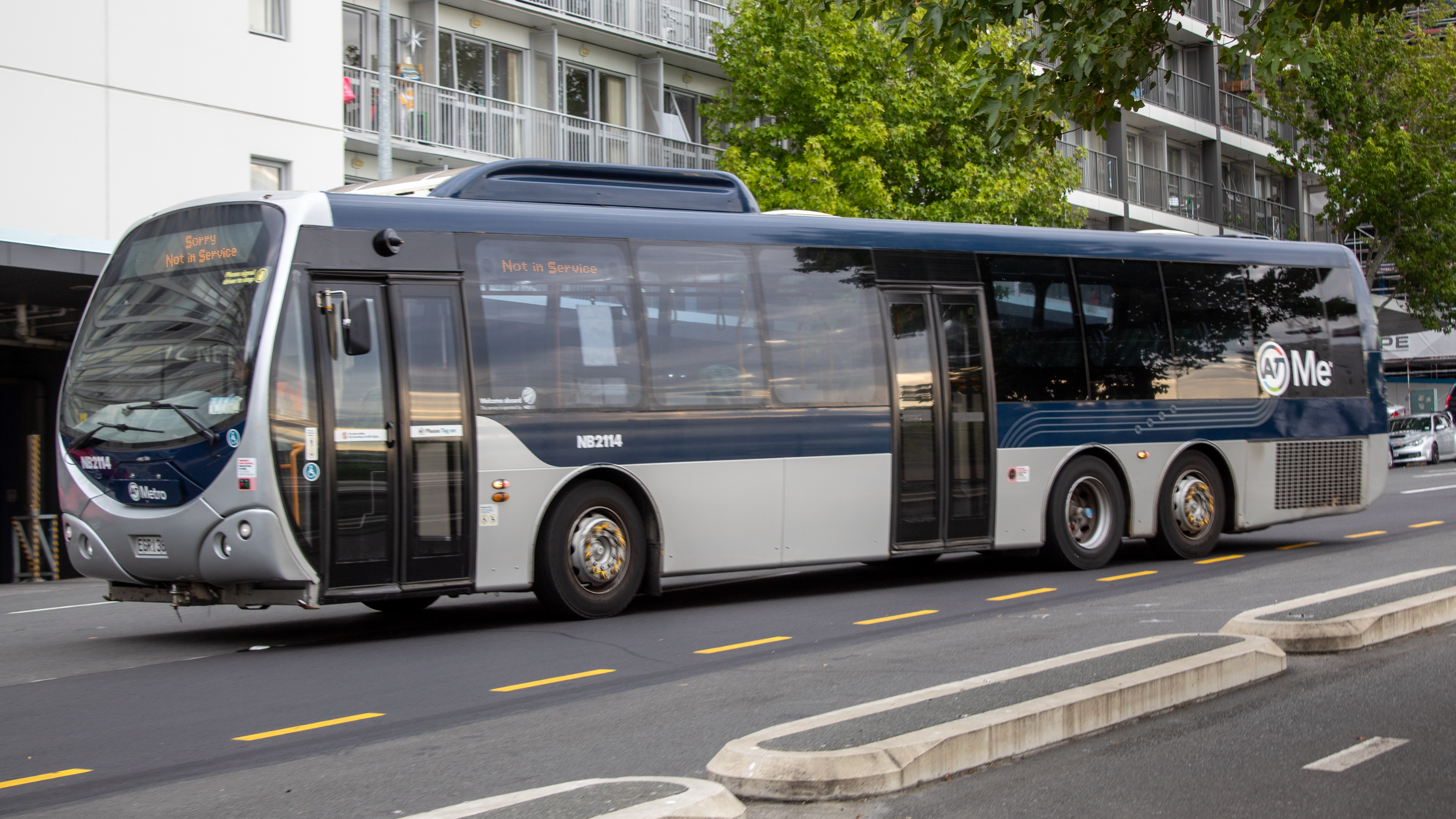 NB2114